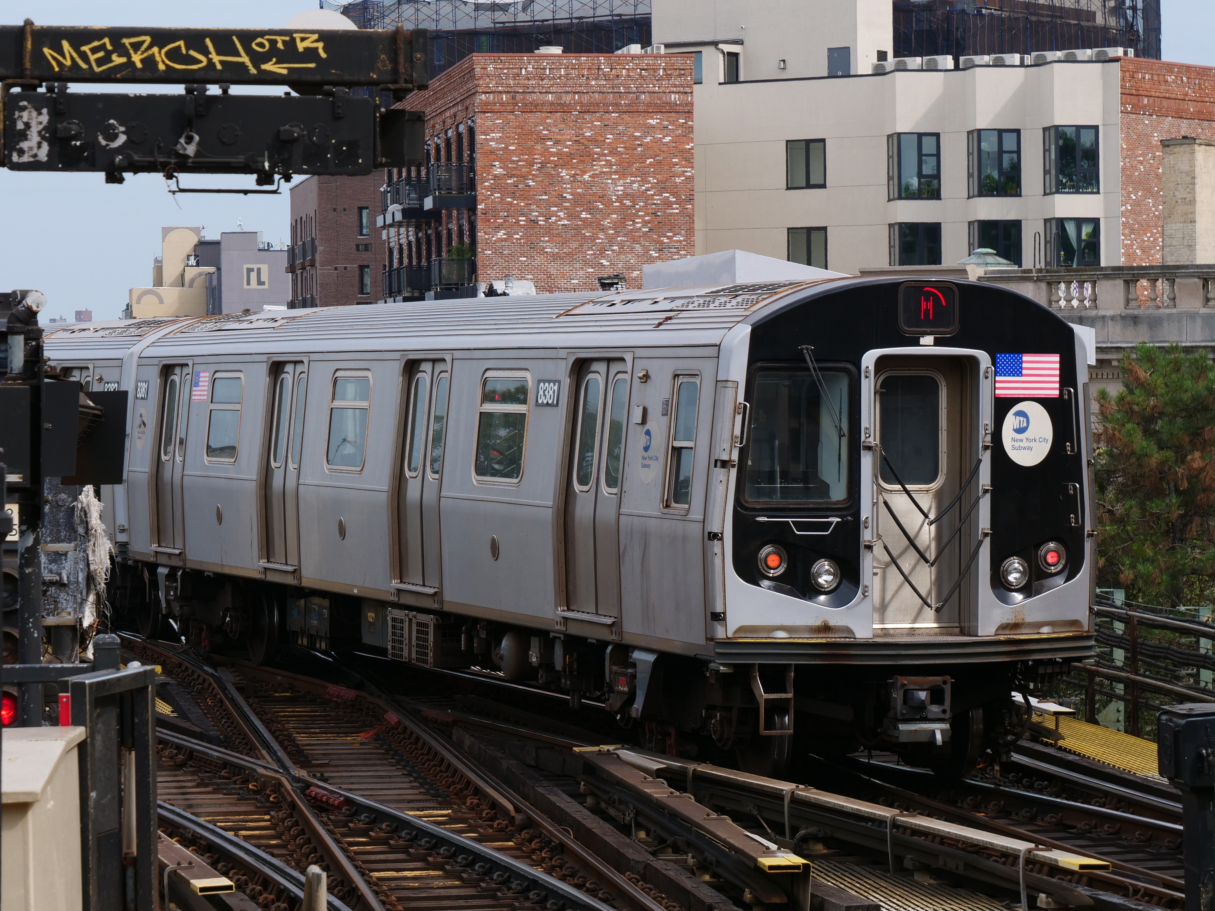 A Metropolitan Avenue-bound R160 M train taking the curve just after Myrtle Avenue, BMT Jamaica Line.